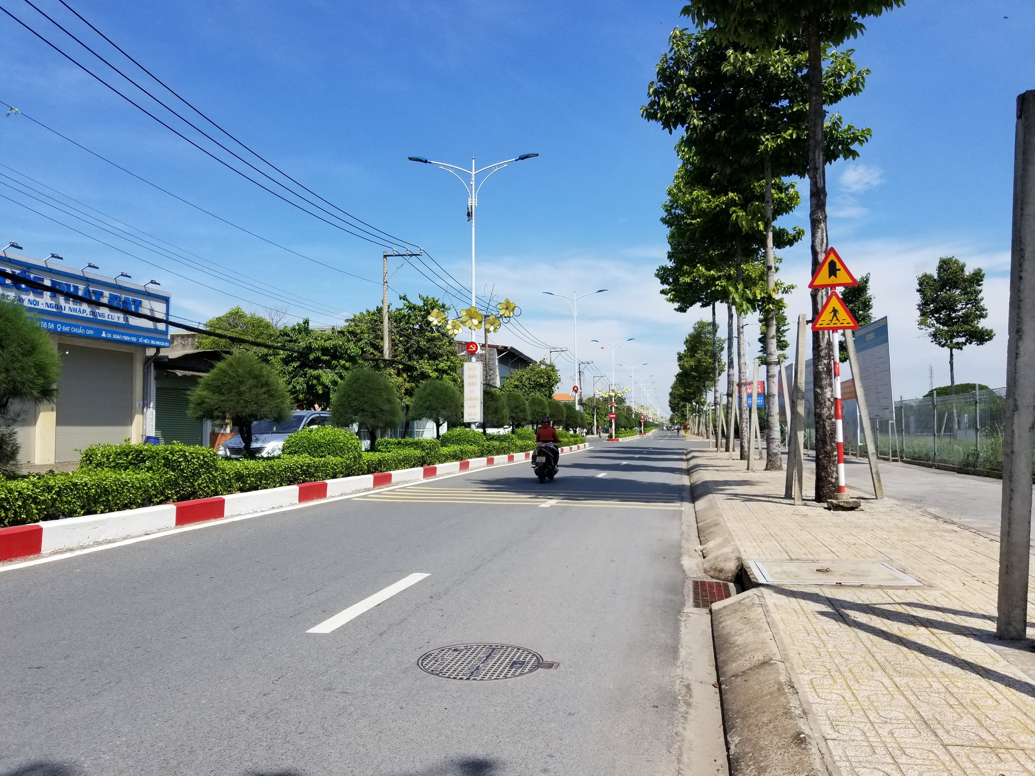 Nguyen Trai Street, Lai Thieu Ward, Thuan An City (took on June 18th 2020).